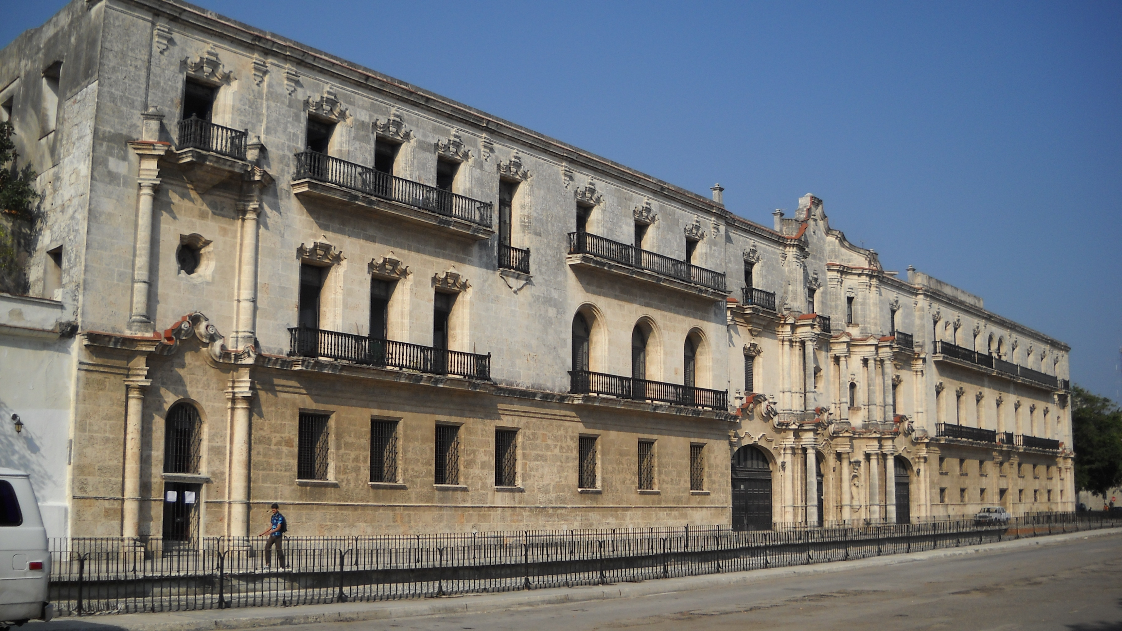 San Carlos and San Ambrosio Seminary located in Havana Cuba